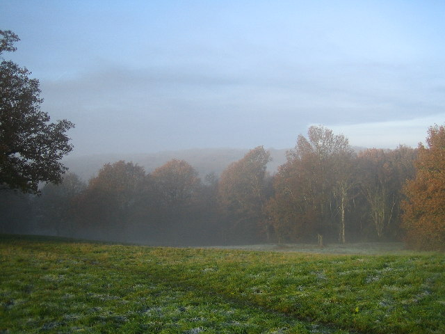 Epping Forest from Baldwins Hill near Loughton. Within the M25! — in the Epping Forest District of Essex, and Greater London.